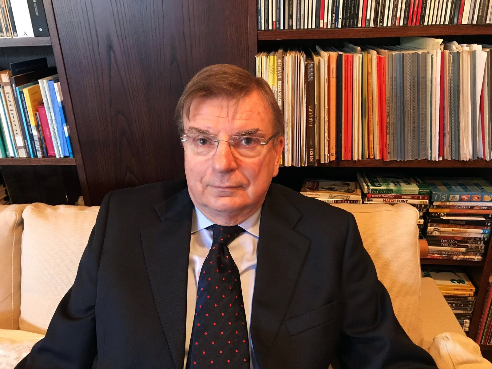 Aljoša Volčič, 06.01.2018 Cosenza